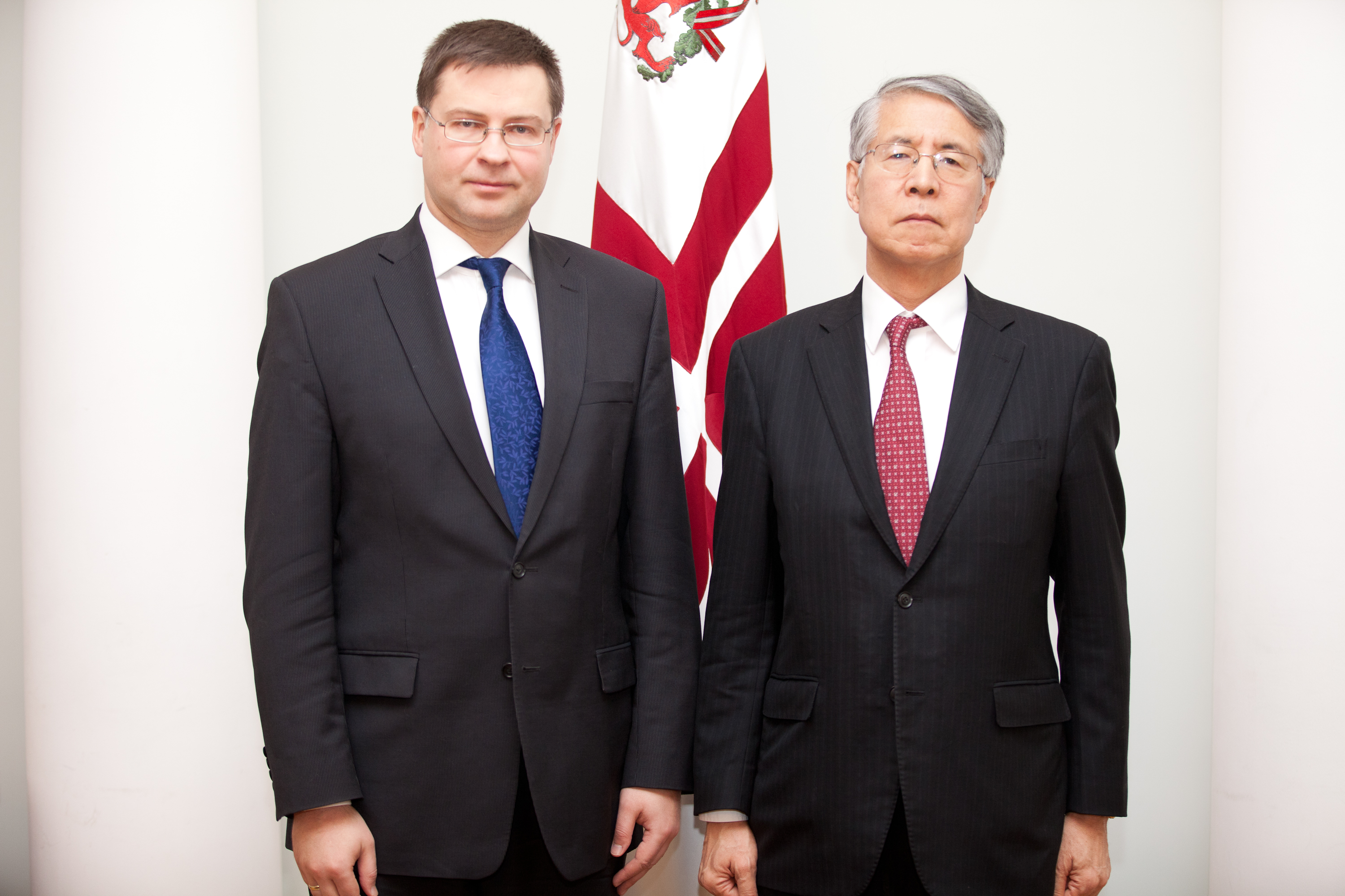 Toshiyuki Taga, Ambassador to Latvia, met Valdis Dombrovskis, Prime Minister, in Latvia on January 9, 2013.